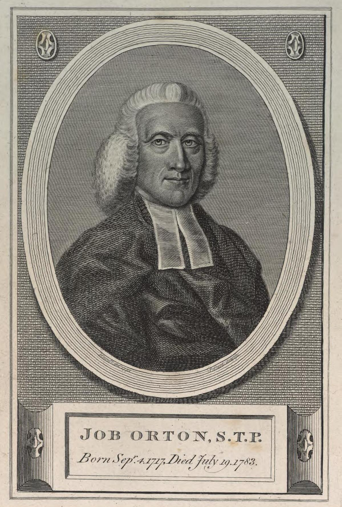 A portrait from the Welsh Portrait Collection at the National Library of Wales. Depicted person: Job Orton – British minister